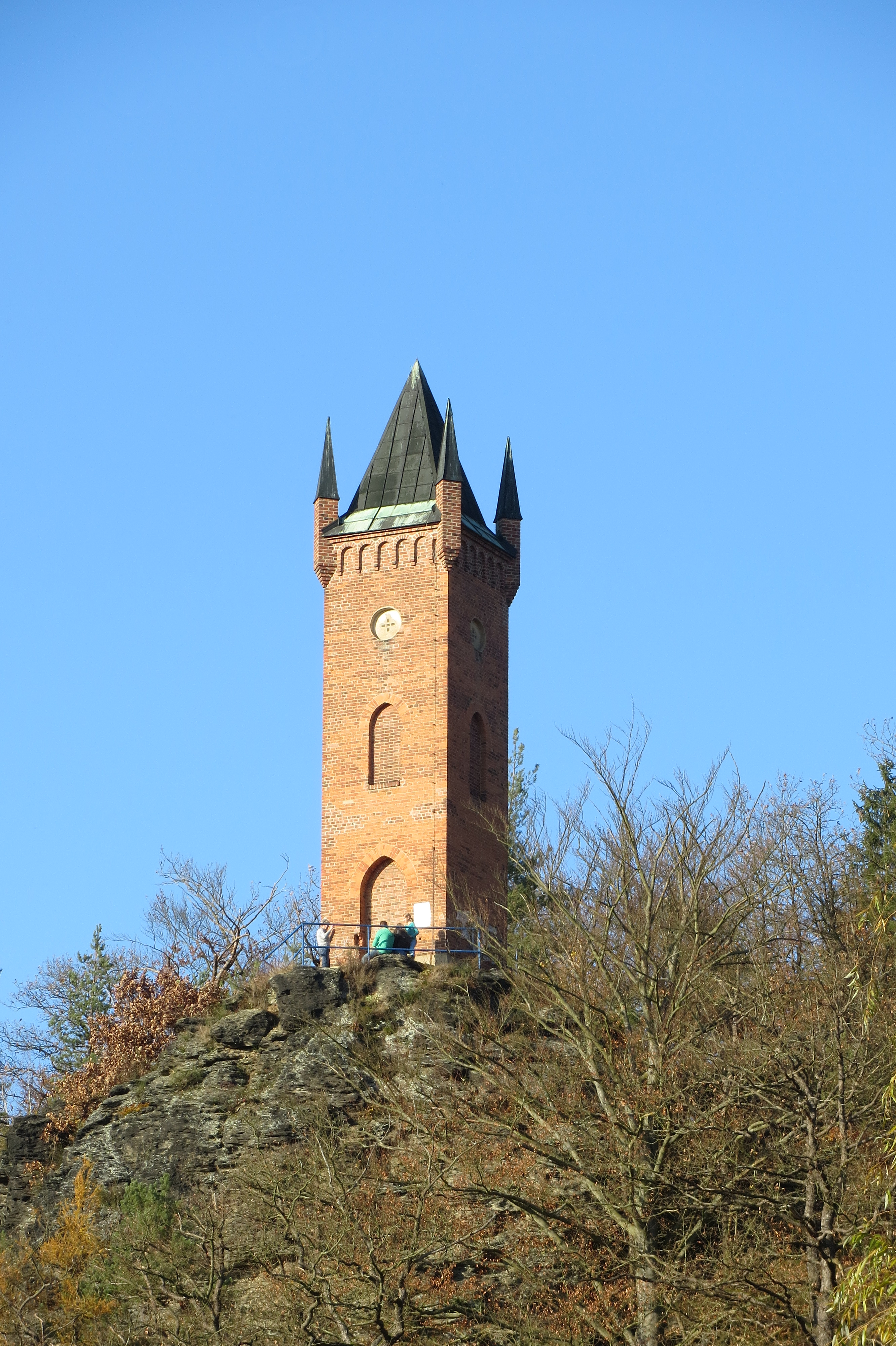 Gunpowder magazin in Greiz